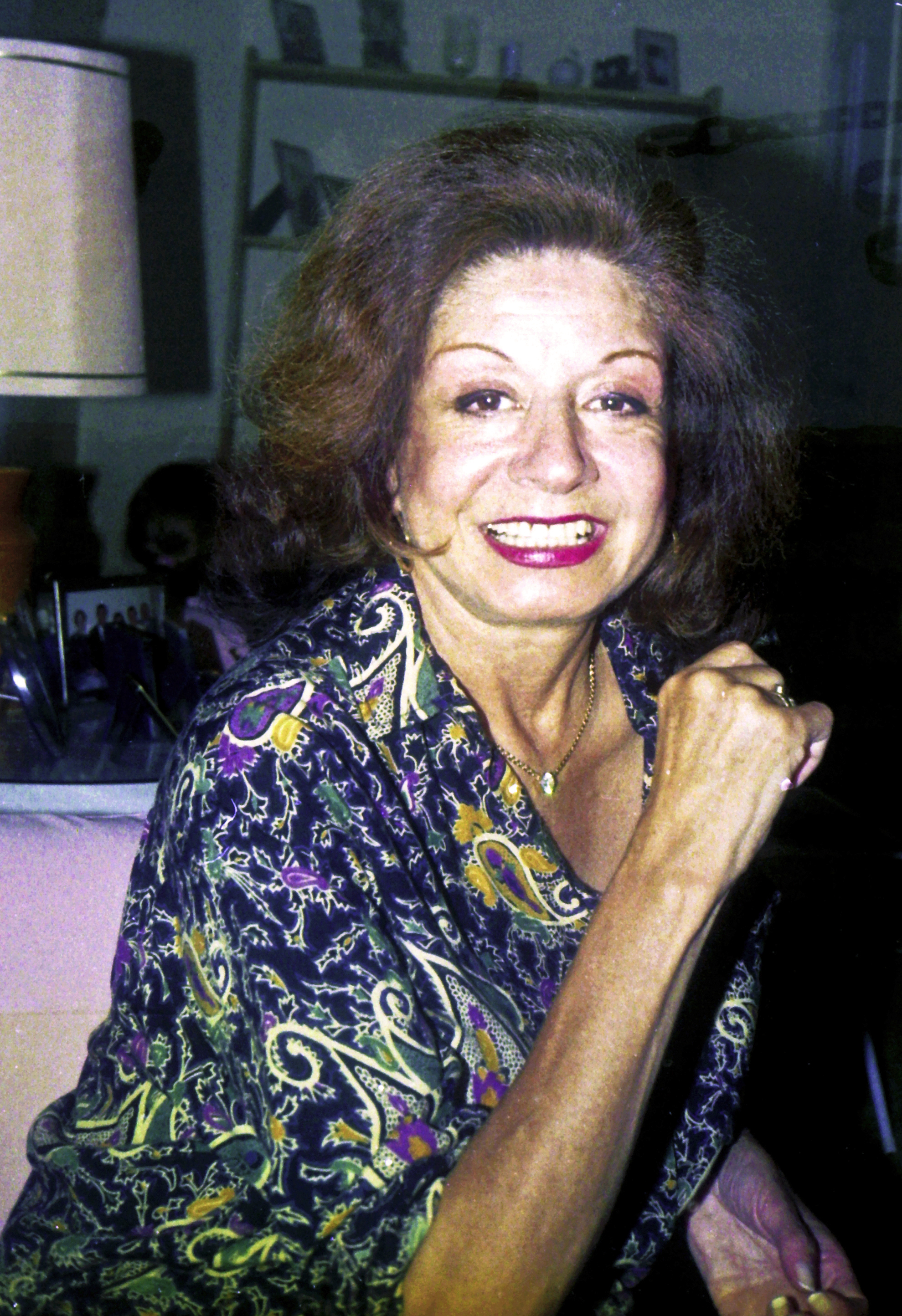 Carlos Gonzalez - Rivera, Albania, La Guajira, Colombia - 1989